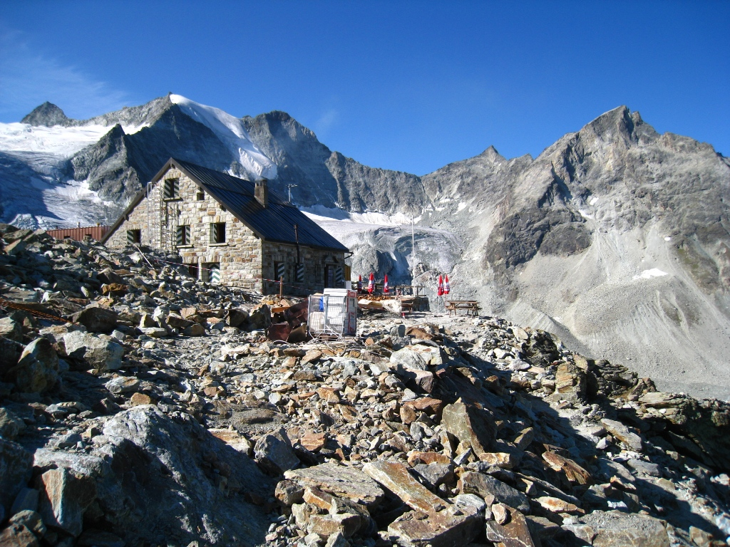 Cabane de Moiry in the Pennine Alps in canton Valais.